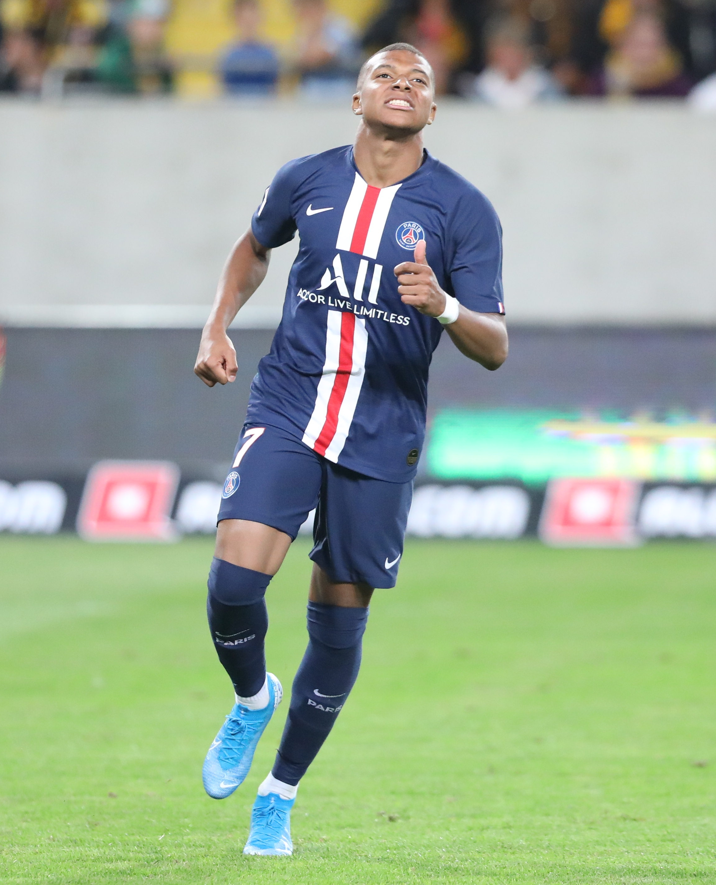 Test game, 17th July 2019: SG Dynamo Dresden vs. Paris Saint-Germain 1:6 (0:3)